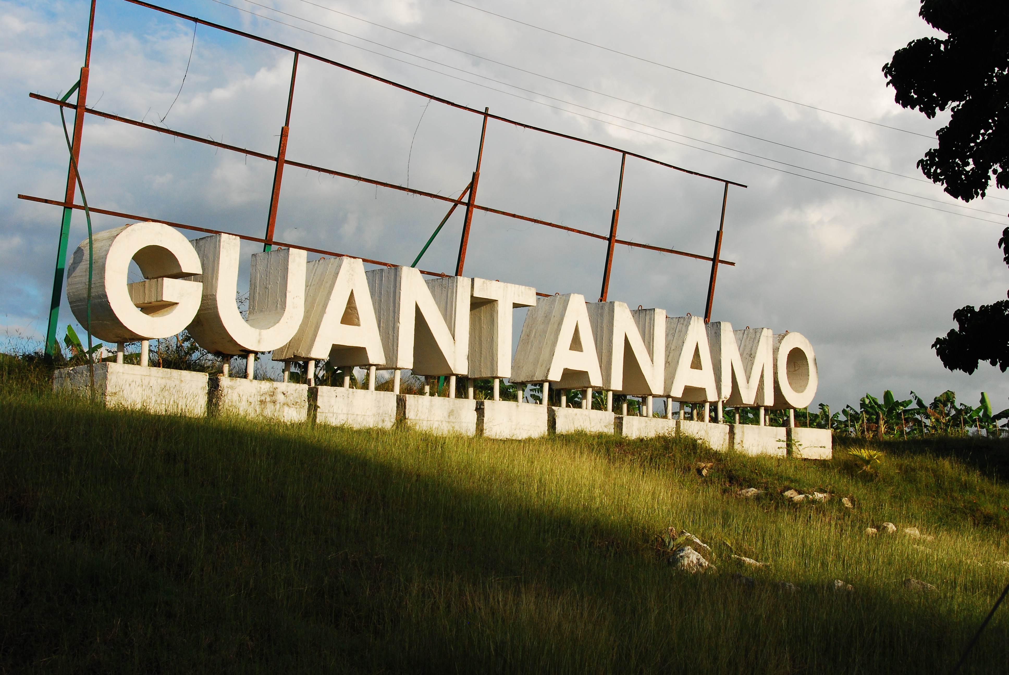 Sign at the border between Santiago and Guantanamo provinces in eastern Cuba. Sign at the borders of Niceto Pérez municipality.